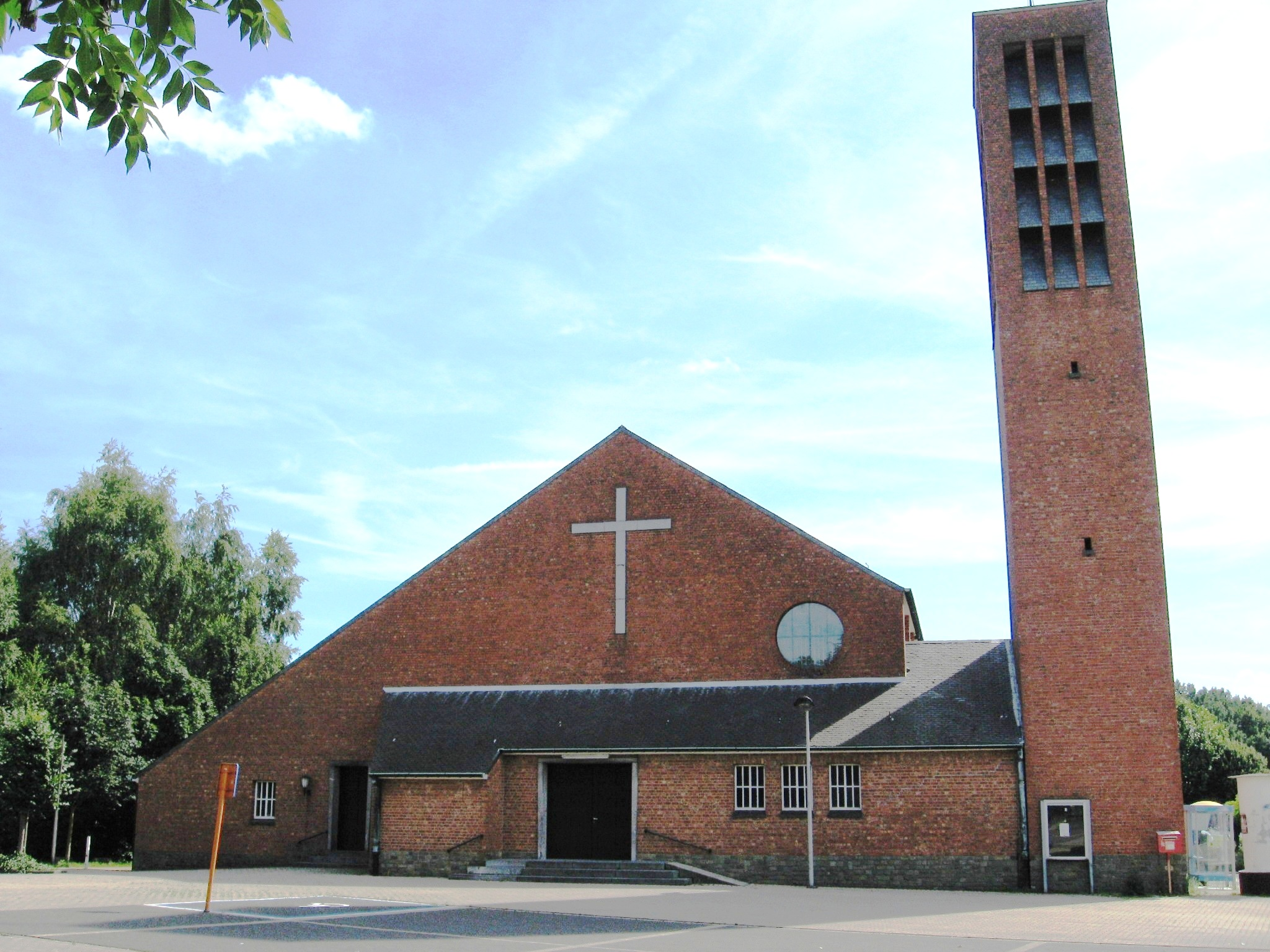 Church of Saint Joseph the Worker in Houthalen (Laak), Houthalen-Helchteren, Limburg, Belgium